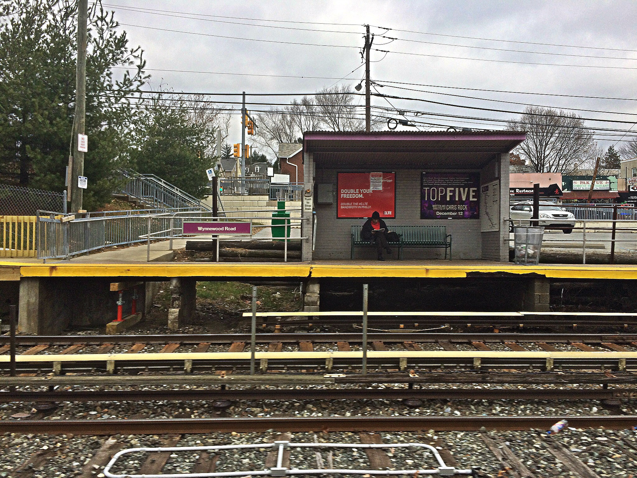 Northbound Platform Wynnewood Road (NHSL)